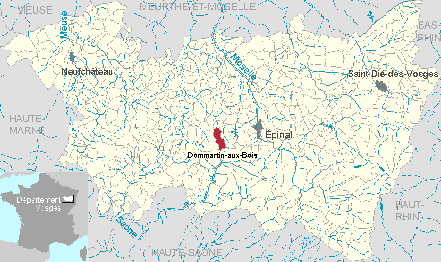 Dommartin-aux-Bois in the department of Vosges, Lorraine, France